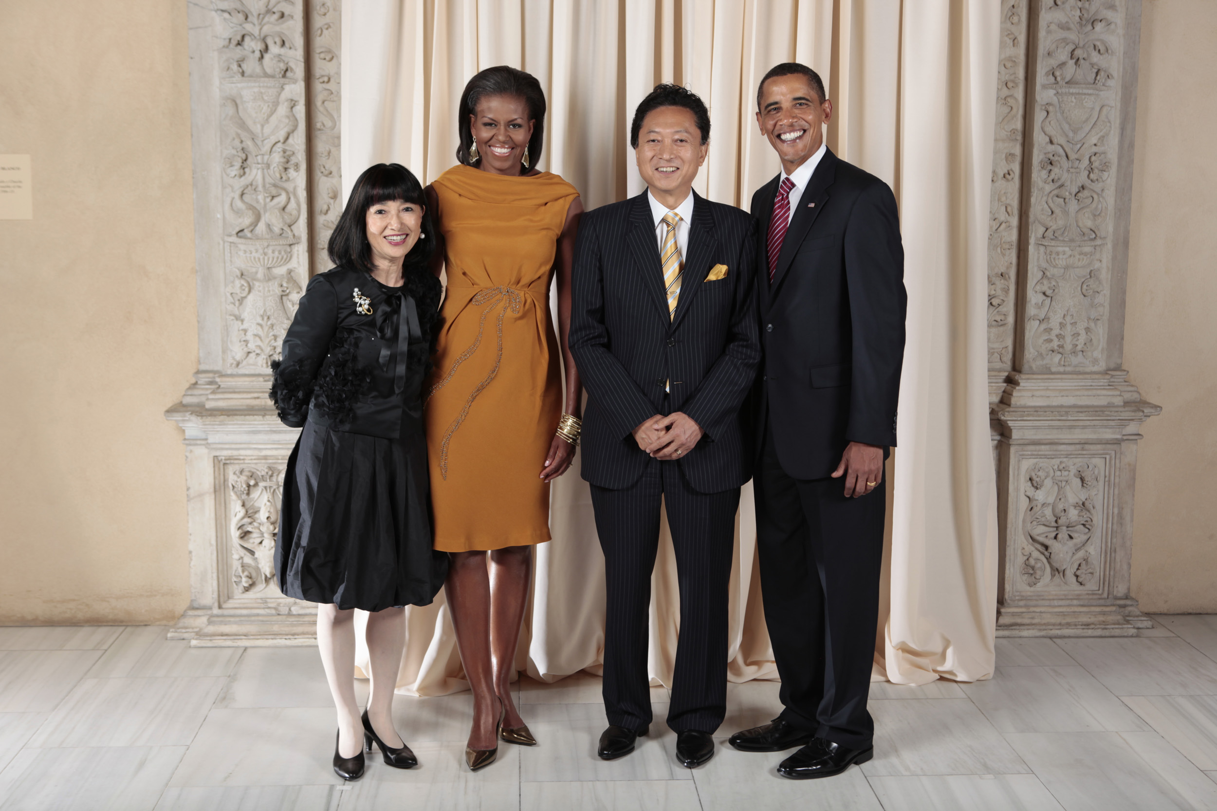 Yukio Hatoyama, Prime Minister of Japan, and Miyuki Hatoyama met Barack Obama, President of the United States, and Michelle Obama at the Metropolitan Museum of Art in New York City on 23 September 2009.